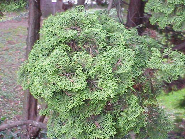 Species: Chamaecyparis obtusa Family: Cupressaceae Image No. 2